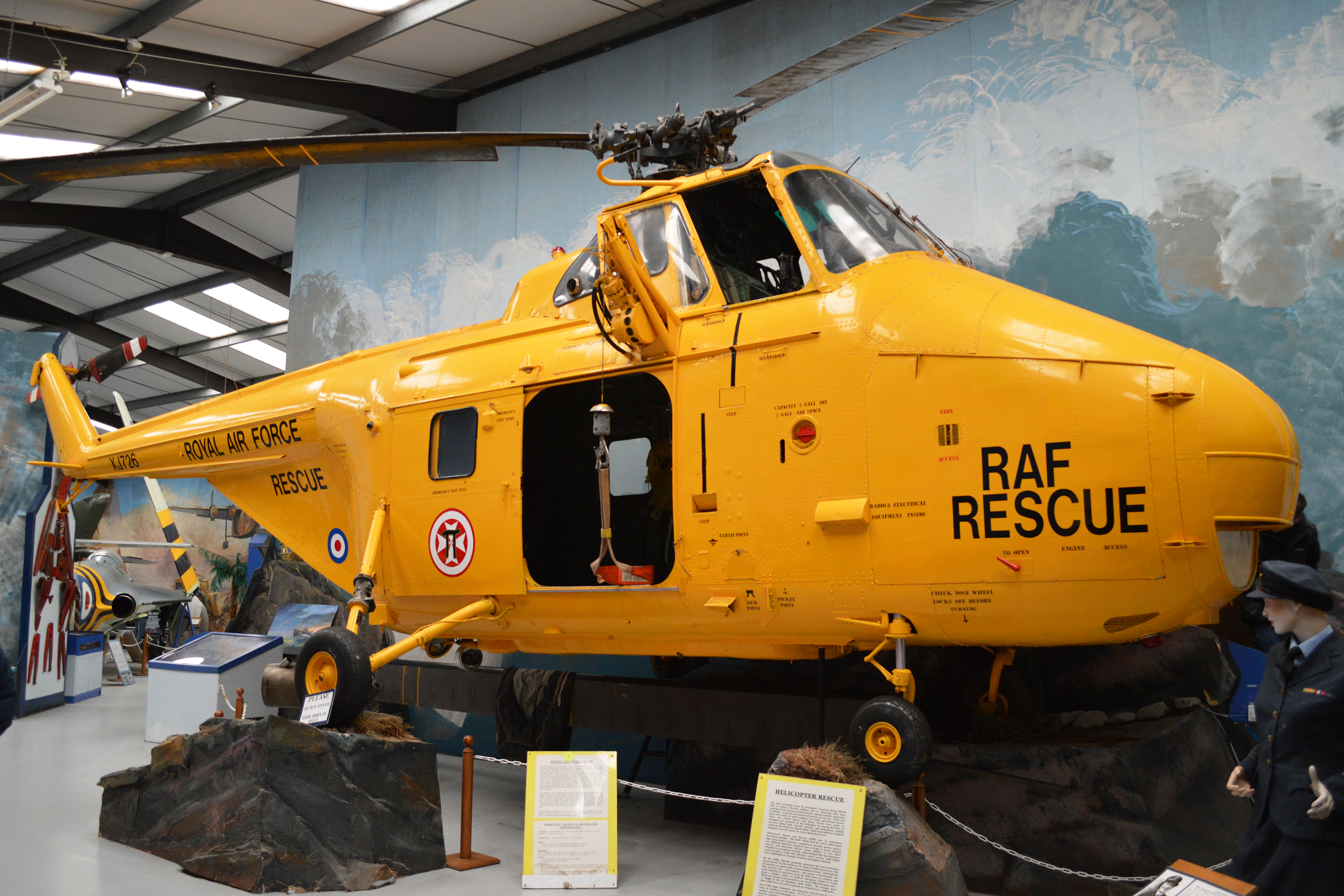 In SAR colour scheme with 22sqn markings. Displayed in a mountain rescue diorama. A platform behind allows you to view the cockpit. c/n WA.97. On display at the Caernarfon Airworld Museum. Caernarfon Airport. 27-5-2013